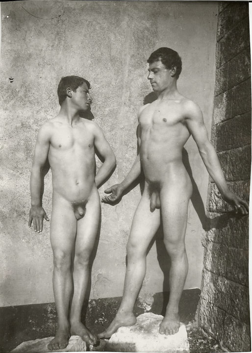 Wilhelm von Gloeden (1856–1931), "Two boys". Catalogue number: 581.